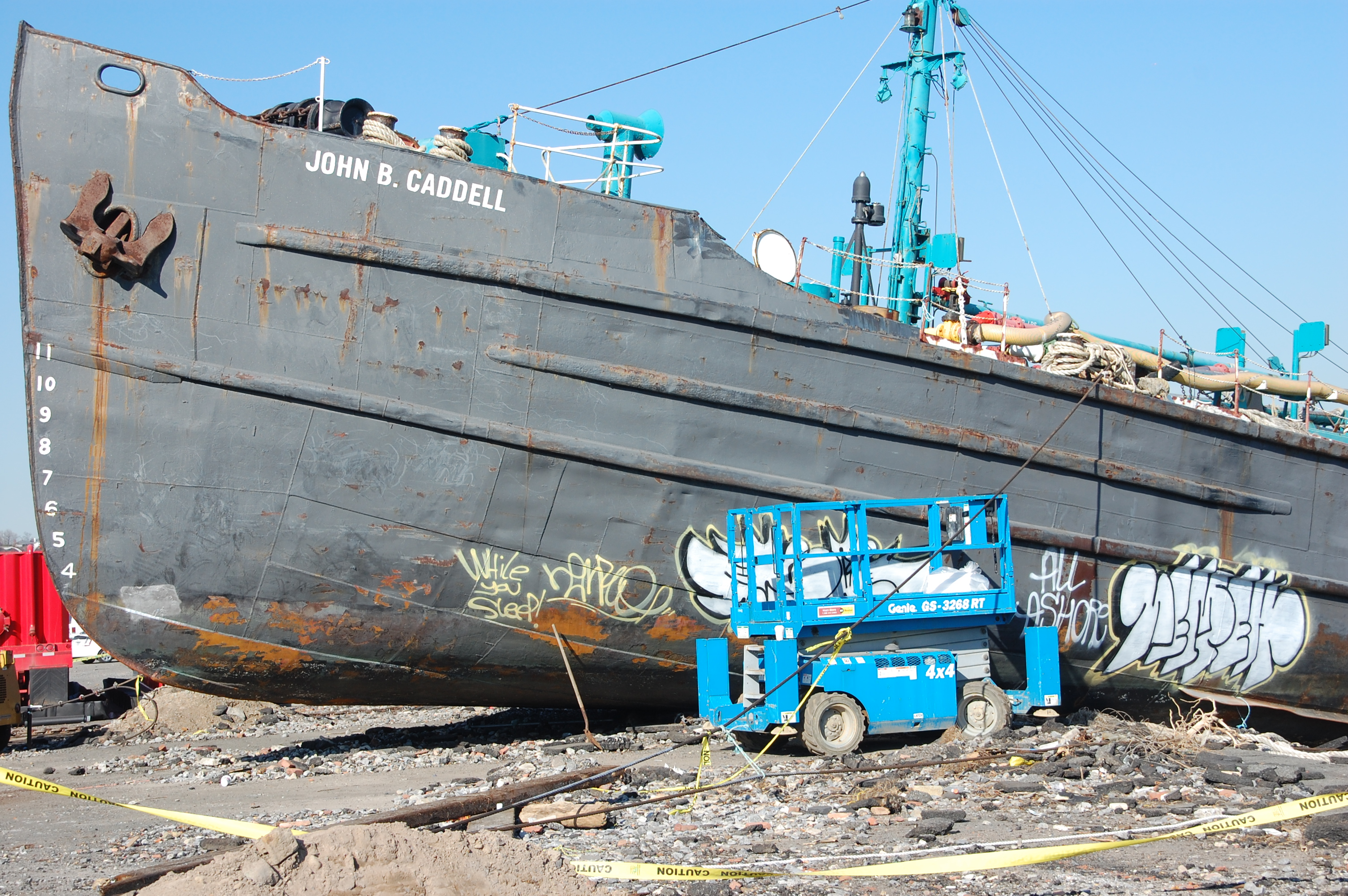 The bow of the "John B. Caddell," the water tanker that ran aground on Staten Island during Hurricane Sandy. While the Army Corps of Engineers is working to patch the hull before freeing the vessel local graffiti artists have discovered a new canvas - exhibiting a bit of New York City wiseguy attitude of which the "All Ashore" tag is emblematic.